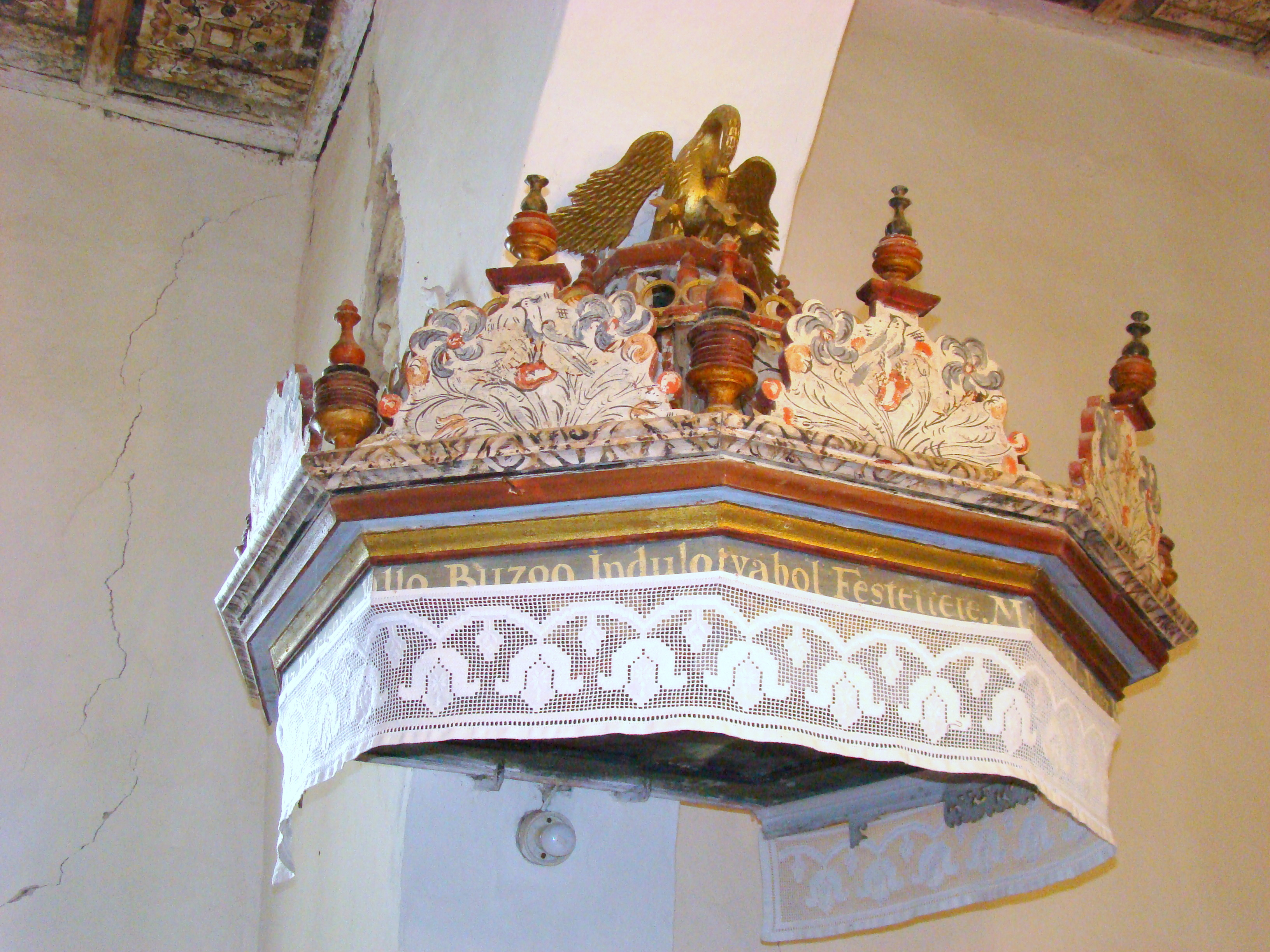 Reformed church in Bicălatu, Cluj county, Romania